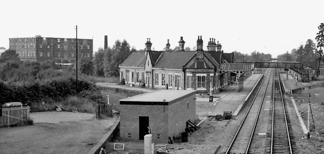 Ashchurch station, northward from road bridge. View northward from the A438 road bridge of the moribund (by now unstaffed?) station, bereft of its branch lines. The 'entrance' remains as it always was:- by the approach road on the left, then by walking over the Tewkesbury line tracks. There is now no signalbox - the last one (seen being built in SO9233 : Railway Station) lasted only 10 years.